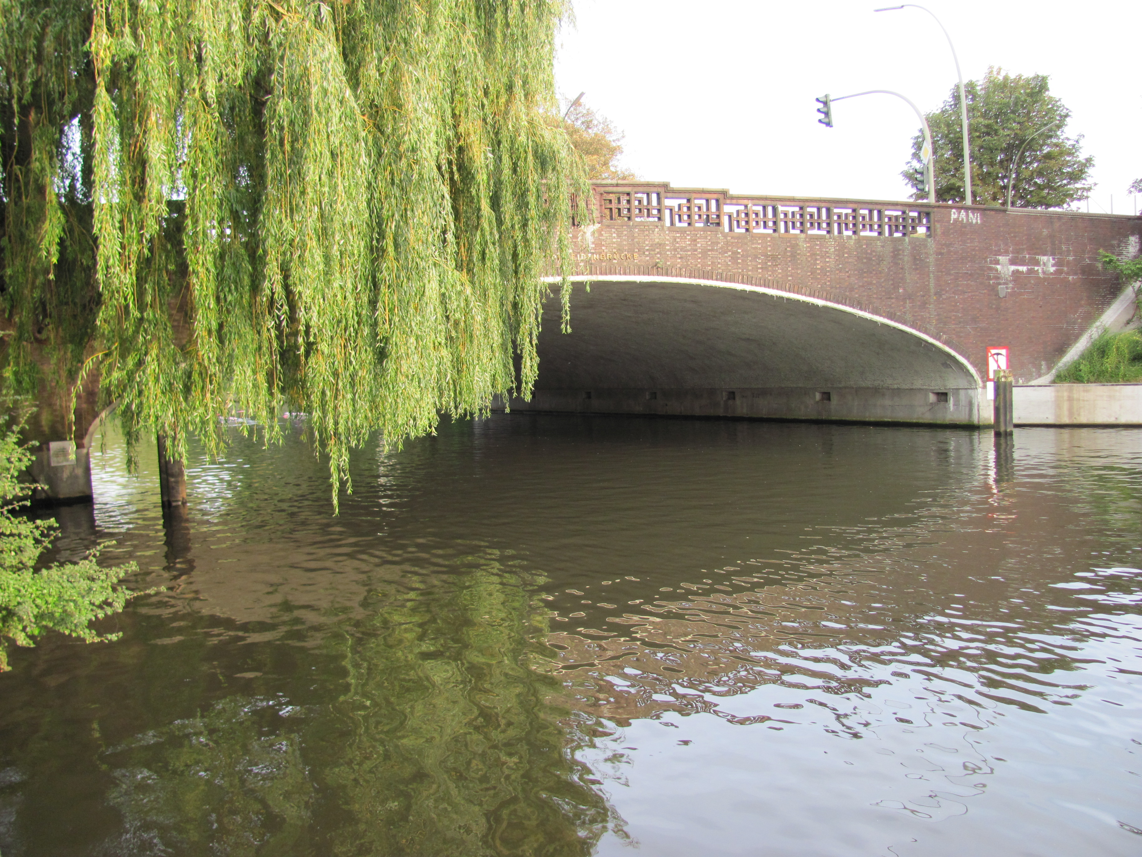 Schleidenbrücke in Hamburg, Germany